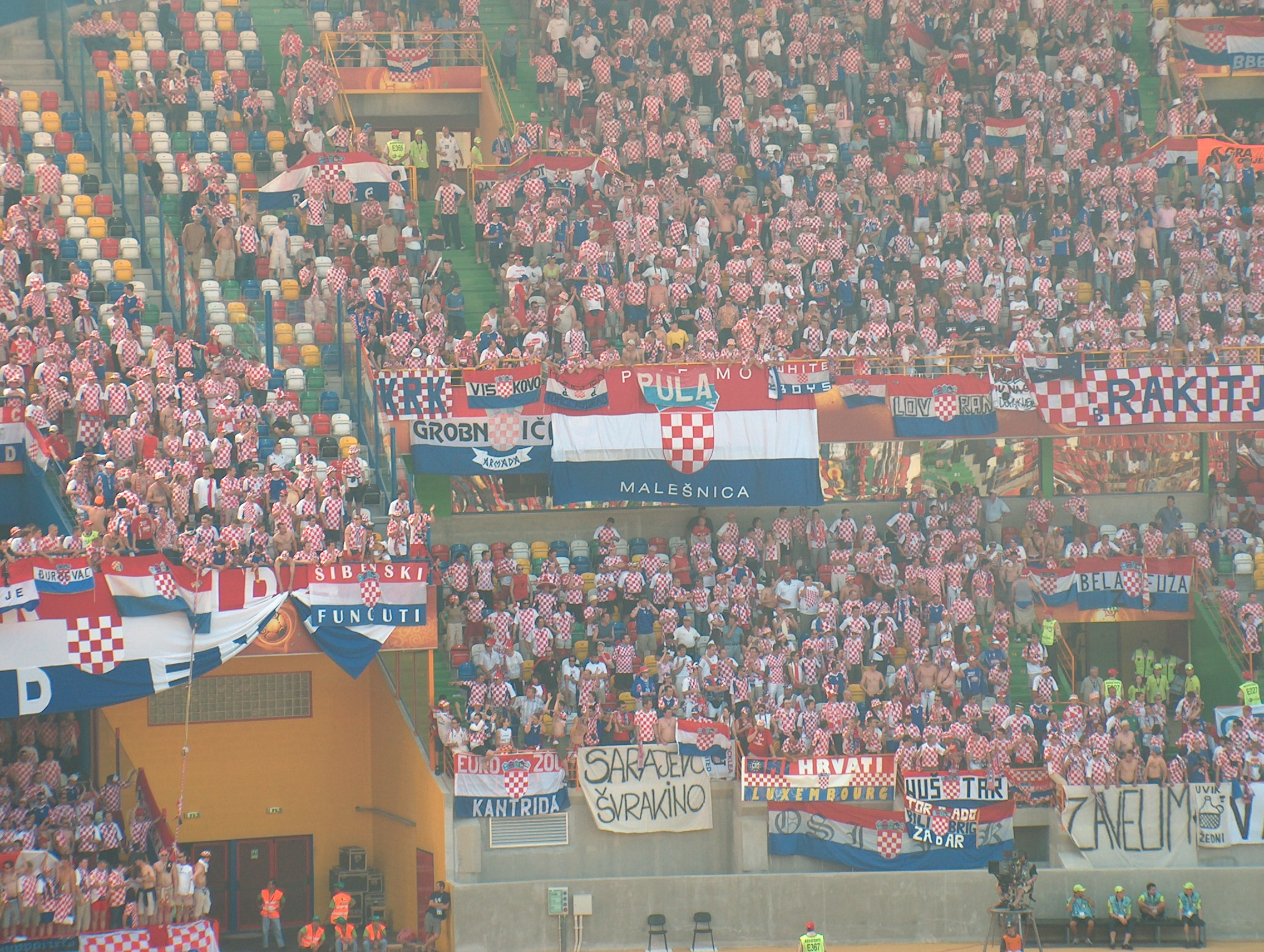 Image description Croatia vs Switzerland - Euro 2004, Croatian fans self made by Bruno Correia